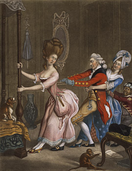 "Tight Lacing, or Fashion before Ease," Bowles and Carver after John Collet, London, England, ca. 1770–1775.